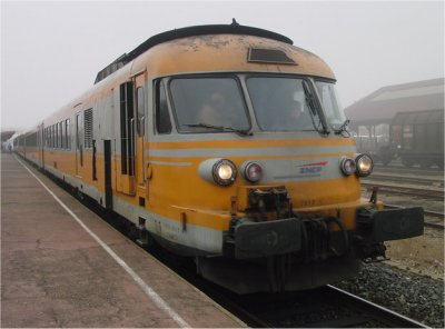 Roanne Station, an RTG at the platform, gare de Roanne.